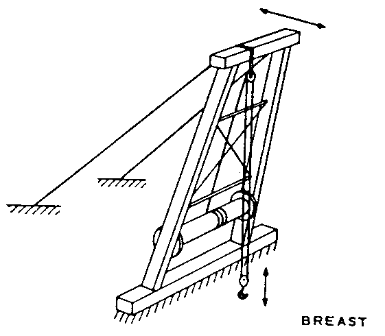 "Breast derrick" means a derrick without boom. The mast consists of two side members spread farther apart at the base than at the top and tied together at top and bottom by rigid members. The mast is prevented from tipping forward by guys connected to its top. The load is raised and lowered by ropes through a sheave or block secured to the top crosspiece.